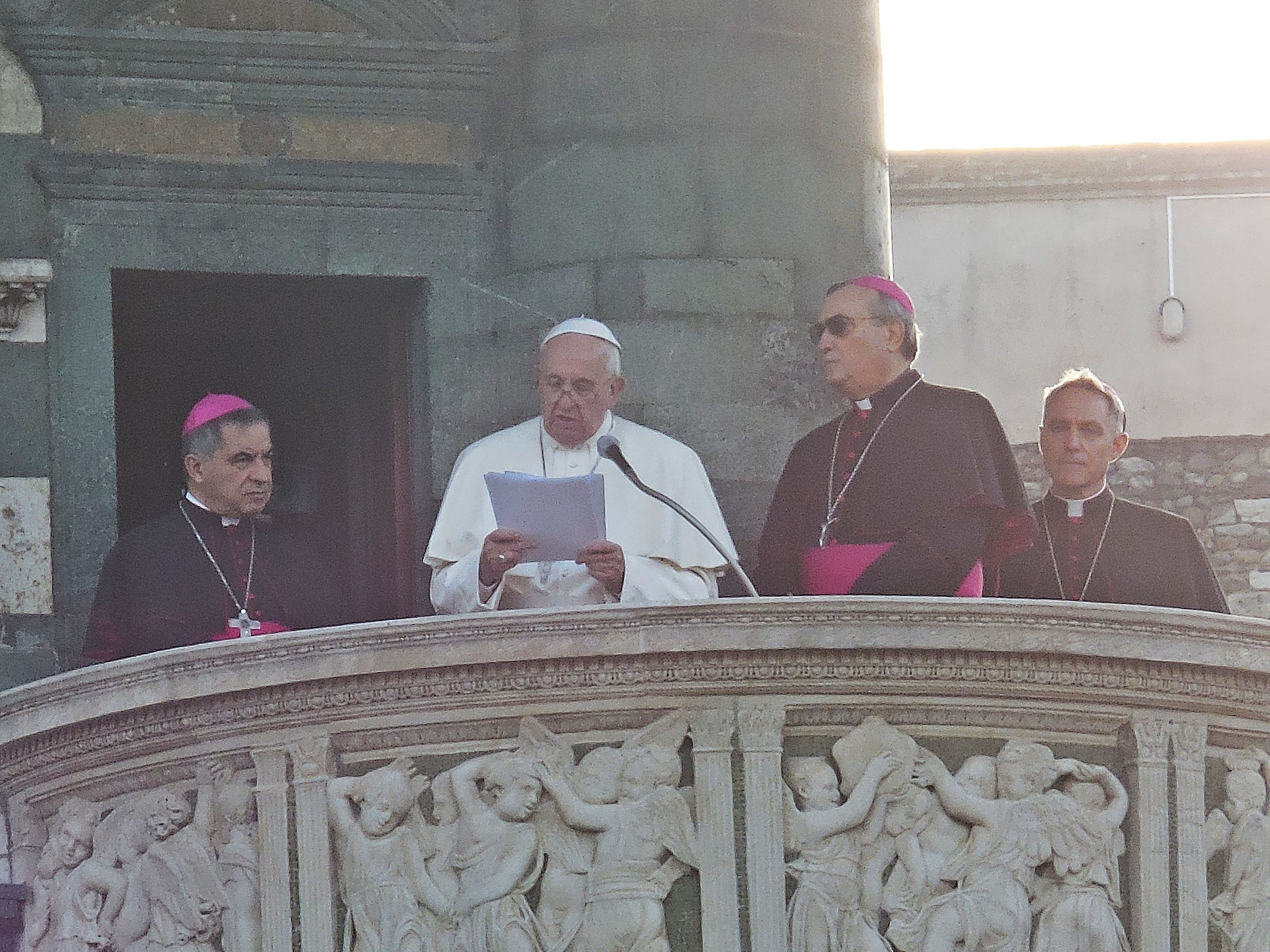 From the pulpit